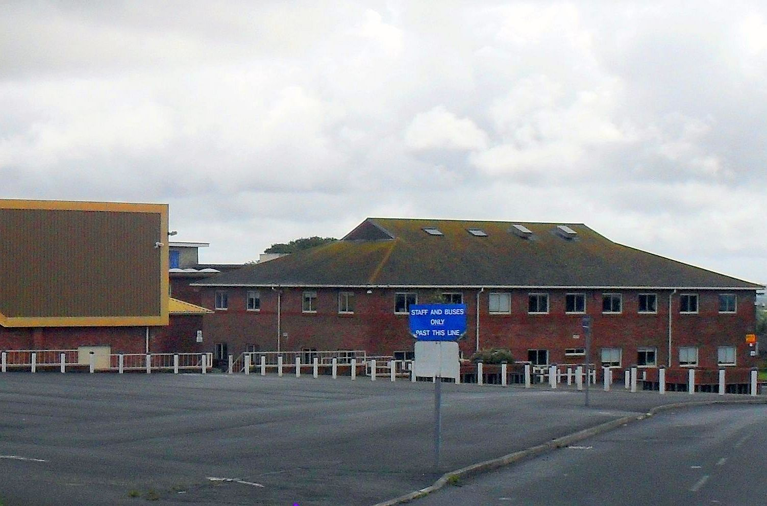 View of Milford Haven School